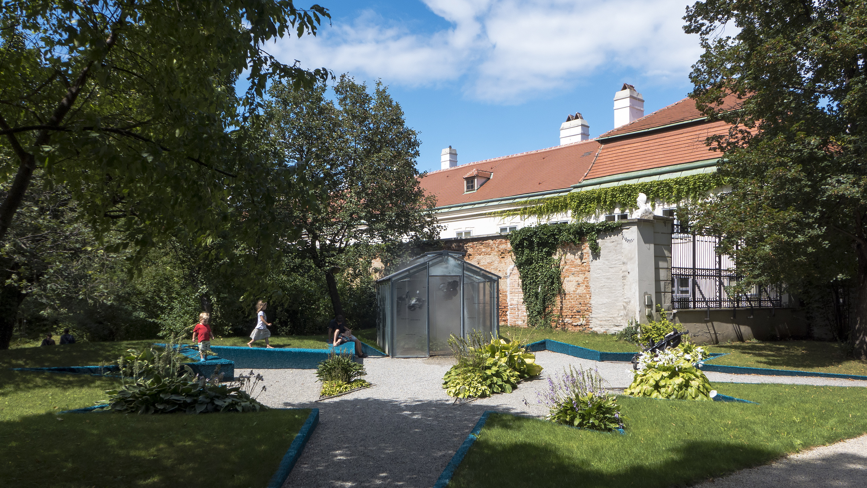 Botanical Garden of the University of Vienna in Vienna 3